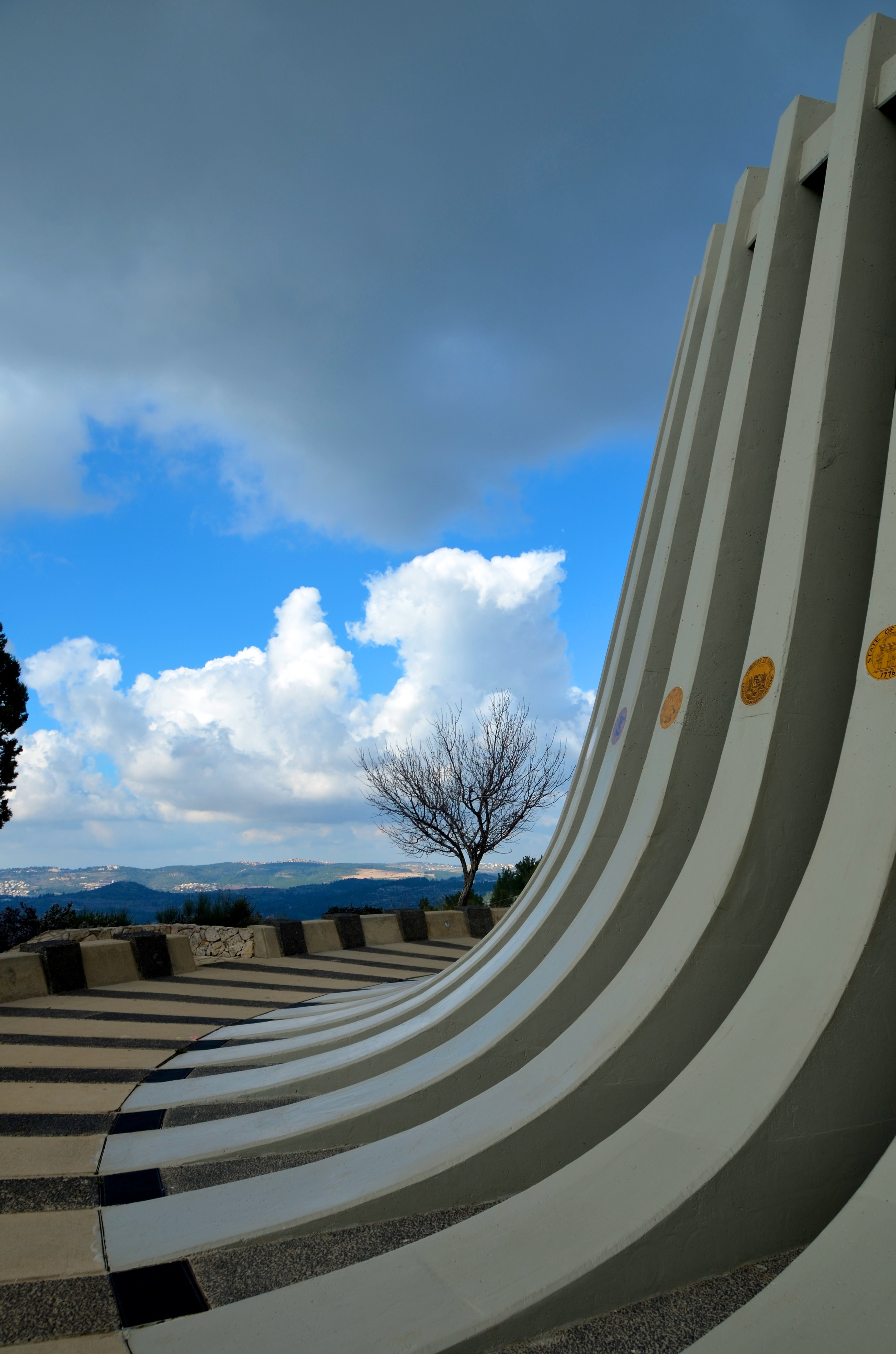 A view of the sloping concrete columns of Yad Kennedy, the John F. Kennedy Memorial in Israel, outside of Jerusalem. Each of the 51 columns includes an emblem: one for each of the 50 U.S. States, and one for the District of Columbia (Washington, D.C.)